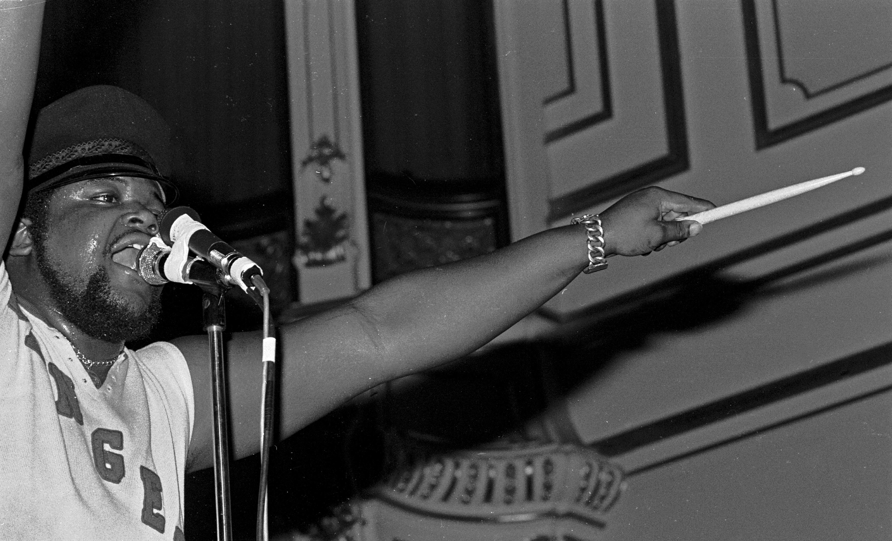 Buddy Miles, Musikhalle Hamburg, 1972